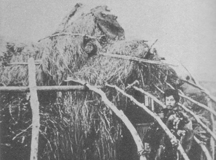 An explorer from Japan,和田平八（Heihachi wada,? - 1894）